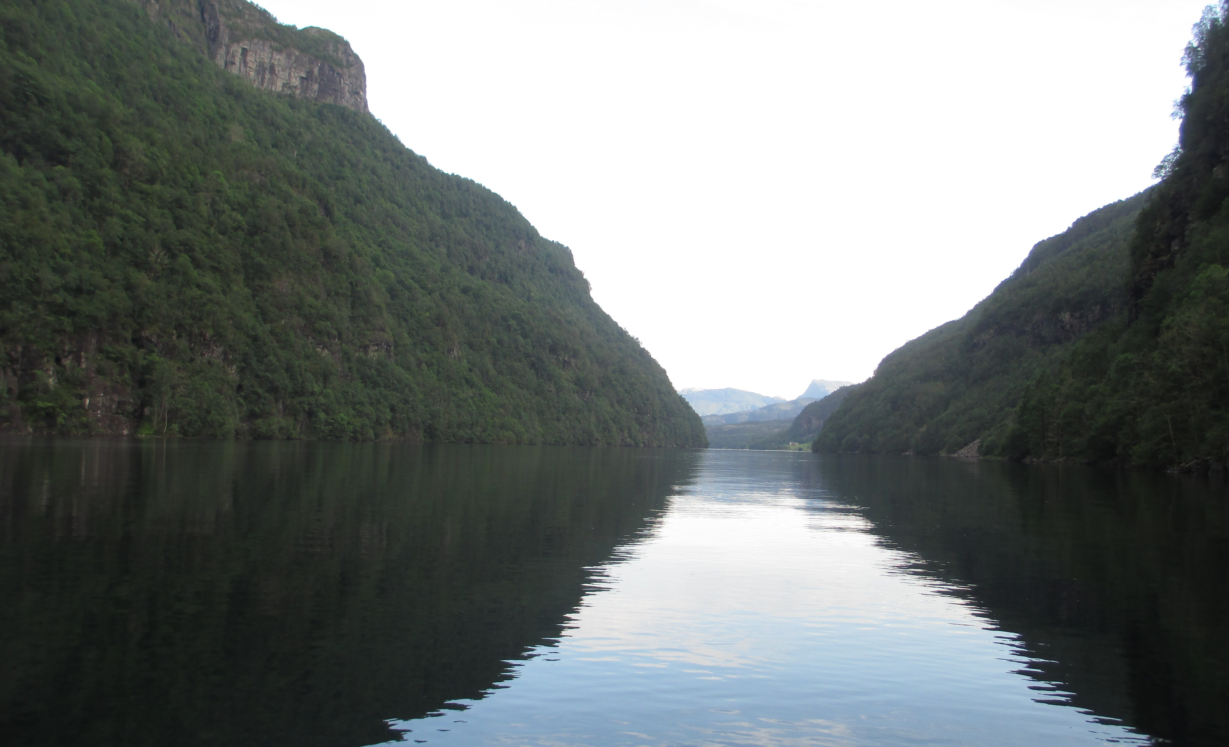 Lake Gjønavatnet in Fusa municipality, Hordaland, Norway. View south from northern part of lake. The farm Hammersland just visible on right hand sideNorsk nynorsk: Gjønavatnet i Fusa, Hordaland. Sett sørover frå nordlege del av vatnet. Garden Hammersland synleg på høgre side av vatnet.